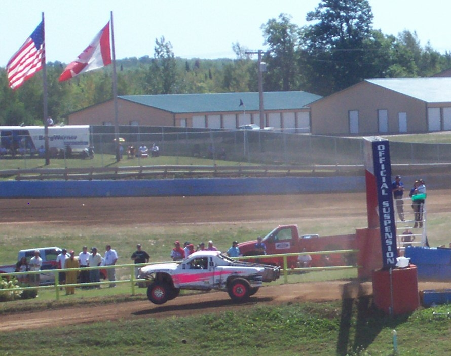 WSORR racer Rhonda Konitzer jumps past the finish line (blue) at the Sunday of Labor Day weekend class race at Crandon International Off-Road Raceway.